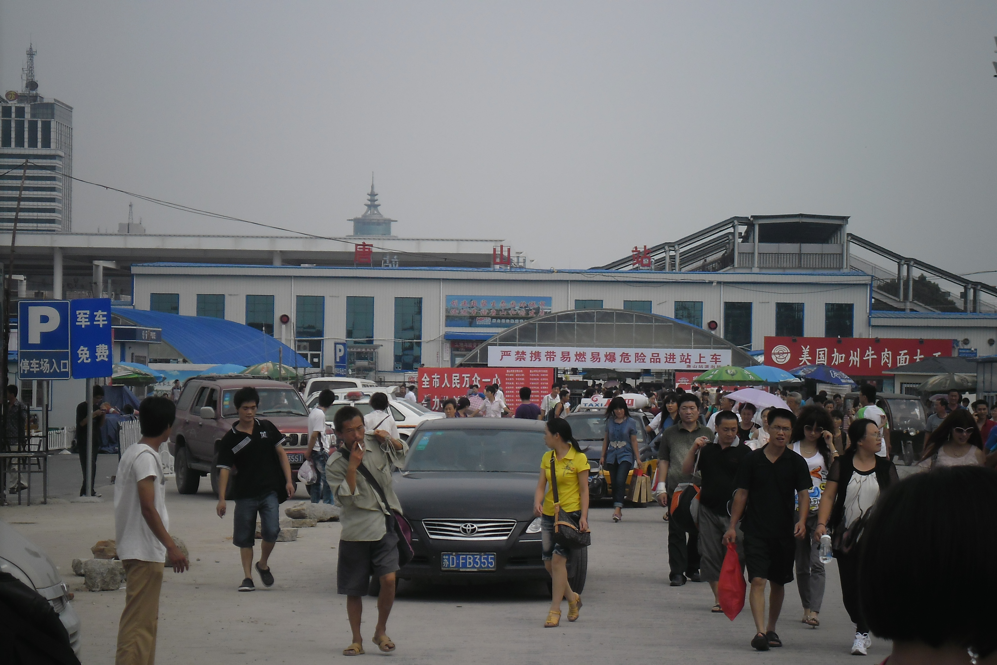 In Tangshan, Hebei